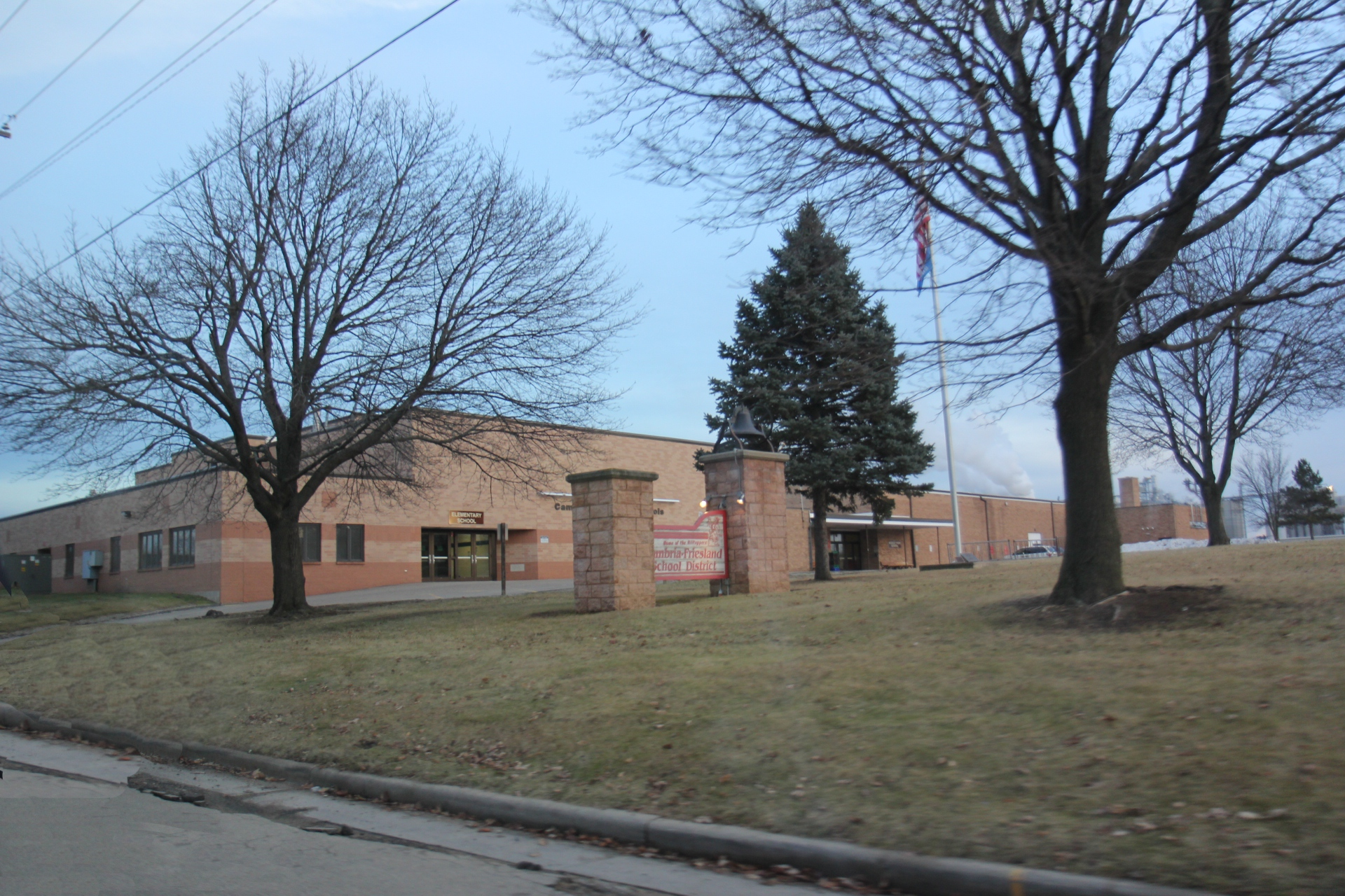 The Cambria, Wisconsin / Friesland, Wisconsin high school in Cambria.